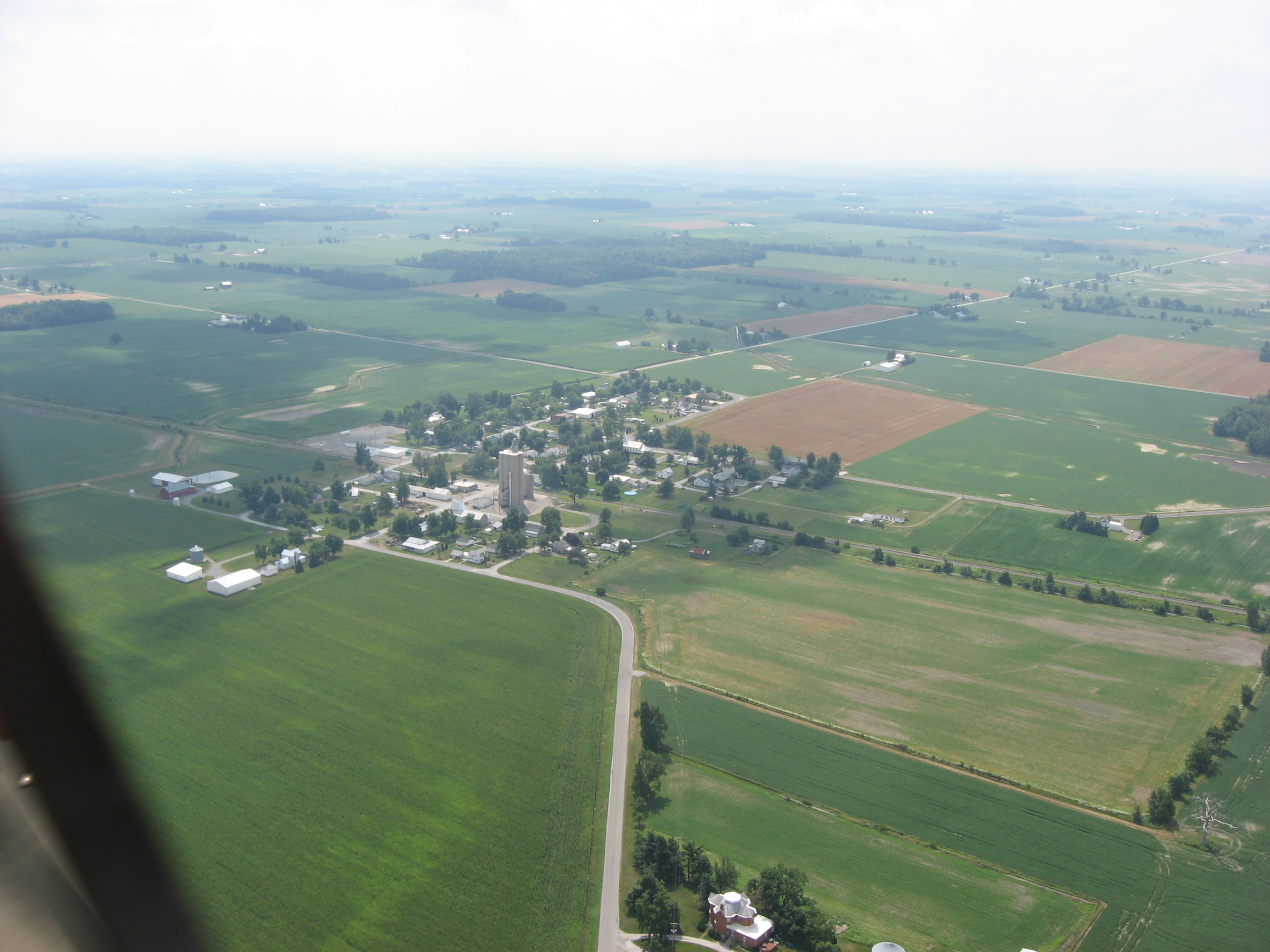 The unincorporated community of Dola in Washington Township, Hardin County, Ohio, United States. Picture taken from a Diamond Eclipse light airplane at an altitude of 1,800 feet MSL and a bearing of approximately 143º. Please forgive dark line on left side, a part of the plane's canopy glass that shouldn't have been in the picture.